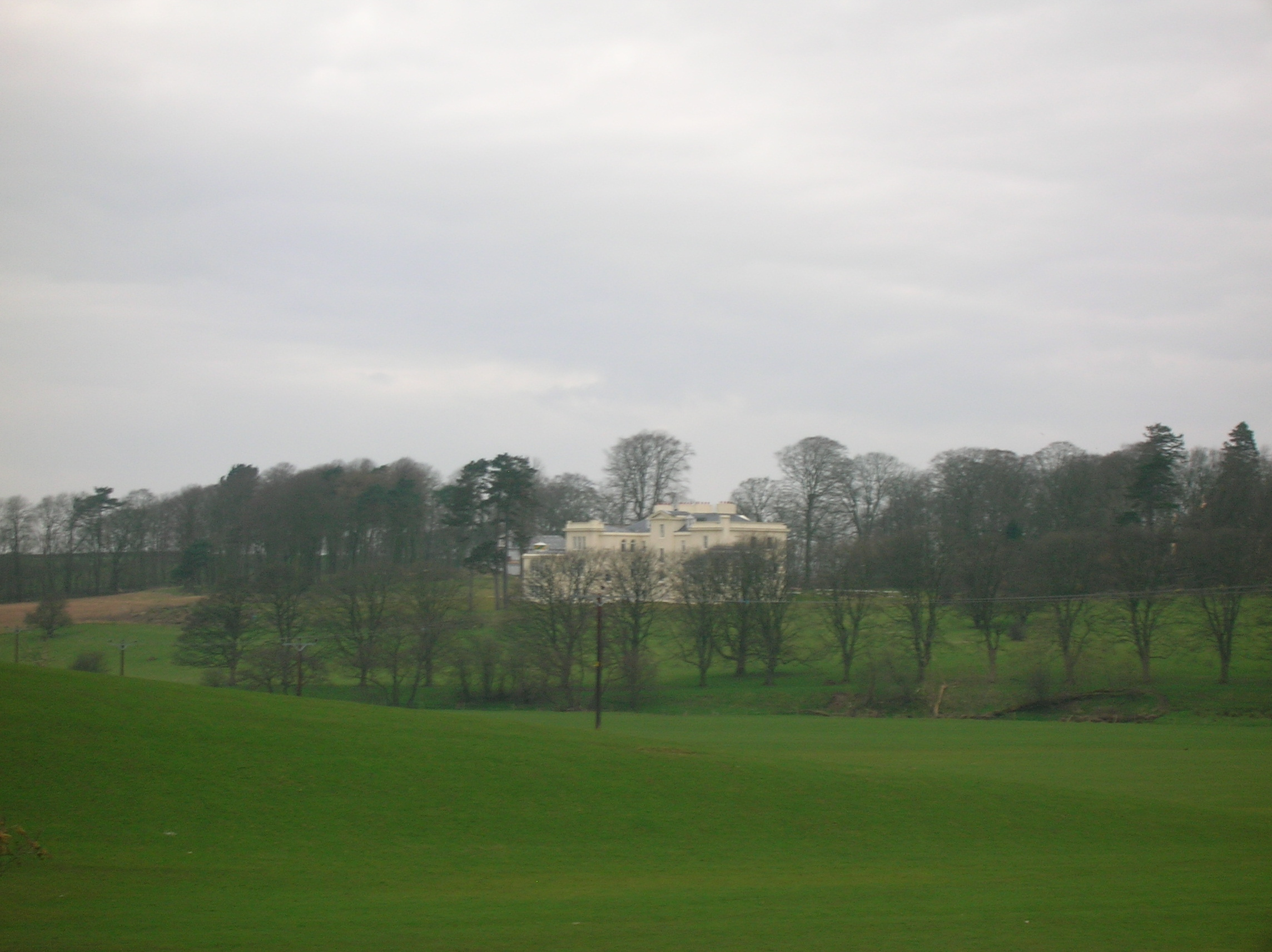 The restored Craig House, near Gatehead, North Ayrshire, Scotland. 2007.